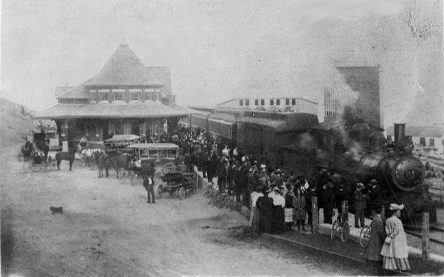 First train leaving the CPR Station in Goderich, Ontario. August 26, 1907. Cropped from the image on ebay, removed words at the top and converted to greyscale. Old postcard published in 1907.